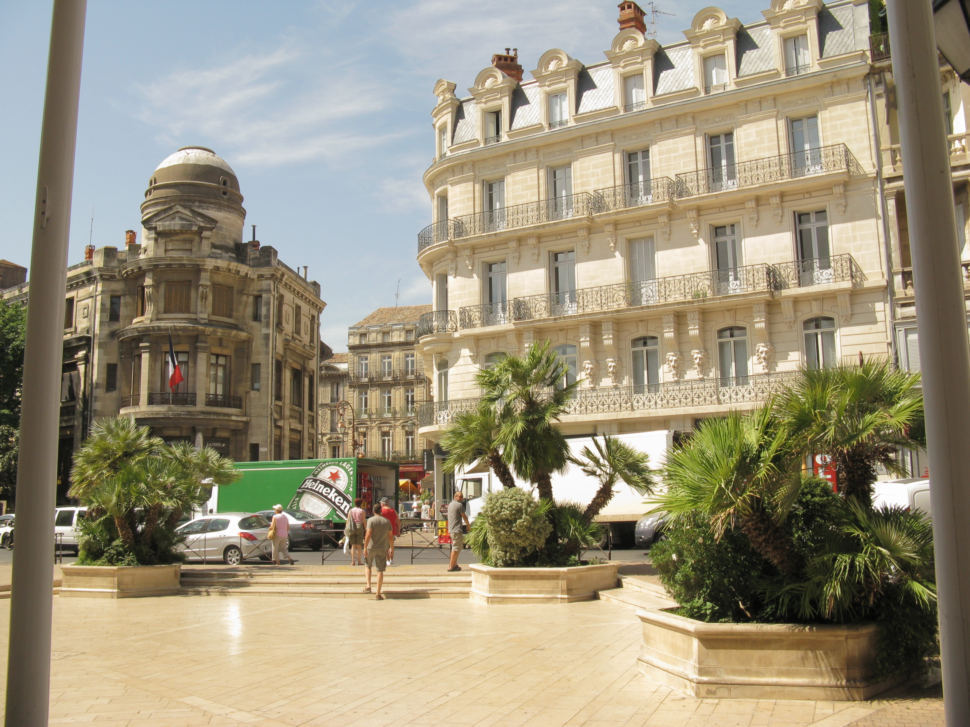 Place Gabriel Péri in Béziers, France.